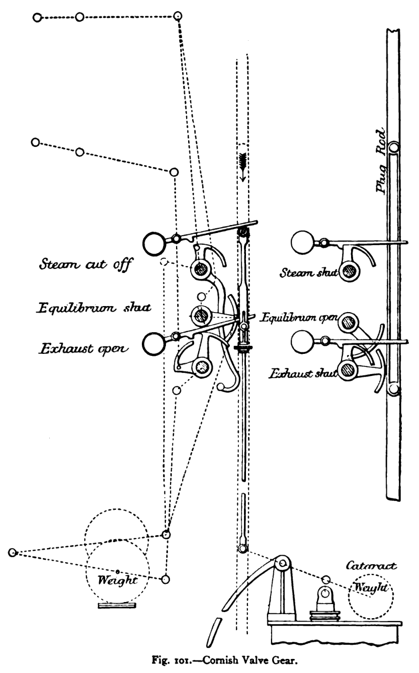 Cornish Engine valve controls with their linkages to the valves (dotted lines going upwards) and the weights that bias them open (dotted lines going down). The left hand view shows the situation part way through the indoor stroke with the plug rod descending and the steam valve now closed, further down in the stroke the exhaust valve will also be closed. The right hand view shows the outdoor stroke, with the steam and exhaust valves now latched closed. Note how the locking quadrants on the exhaust and equilibrium valves prevent them both opening simultaneously.